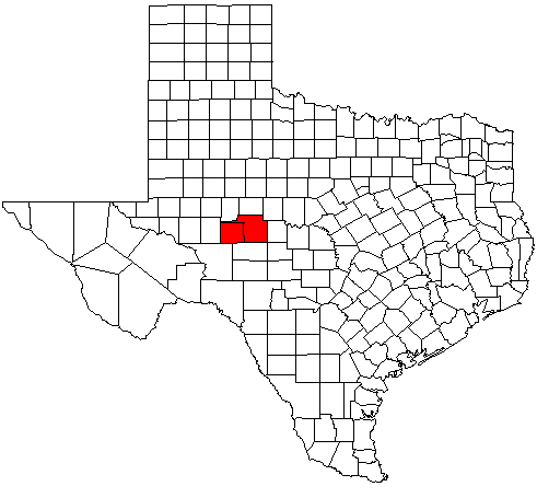 Map of Texas highlighting the San Angelo Metropolitan Statistical Area; created with the GIMP. Made by User:Acntx.